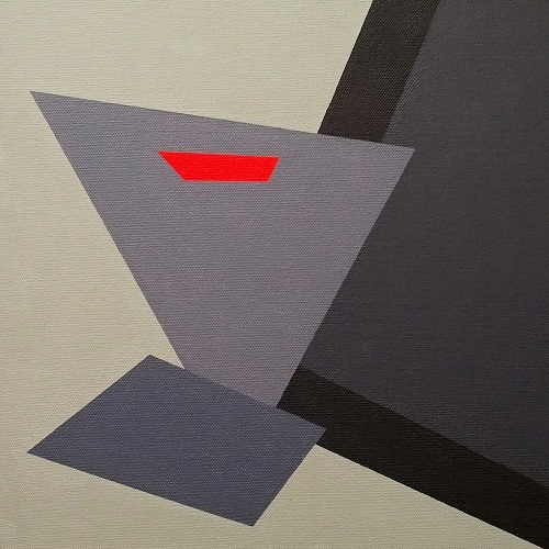 Acrylic on canvas, 30cm x 30cm - painting shown in 2019 exhibitions "Dear Christine; a tribute to Christine Keeler"